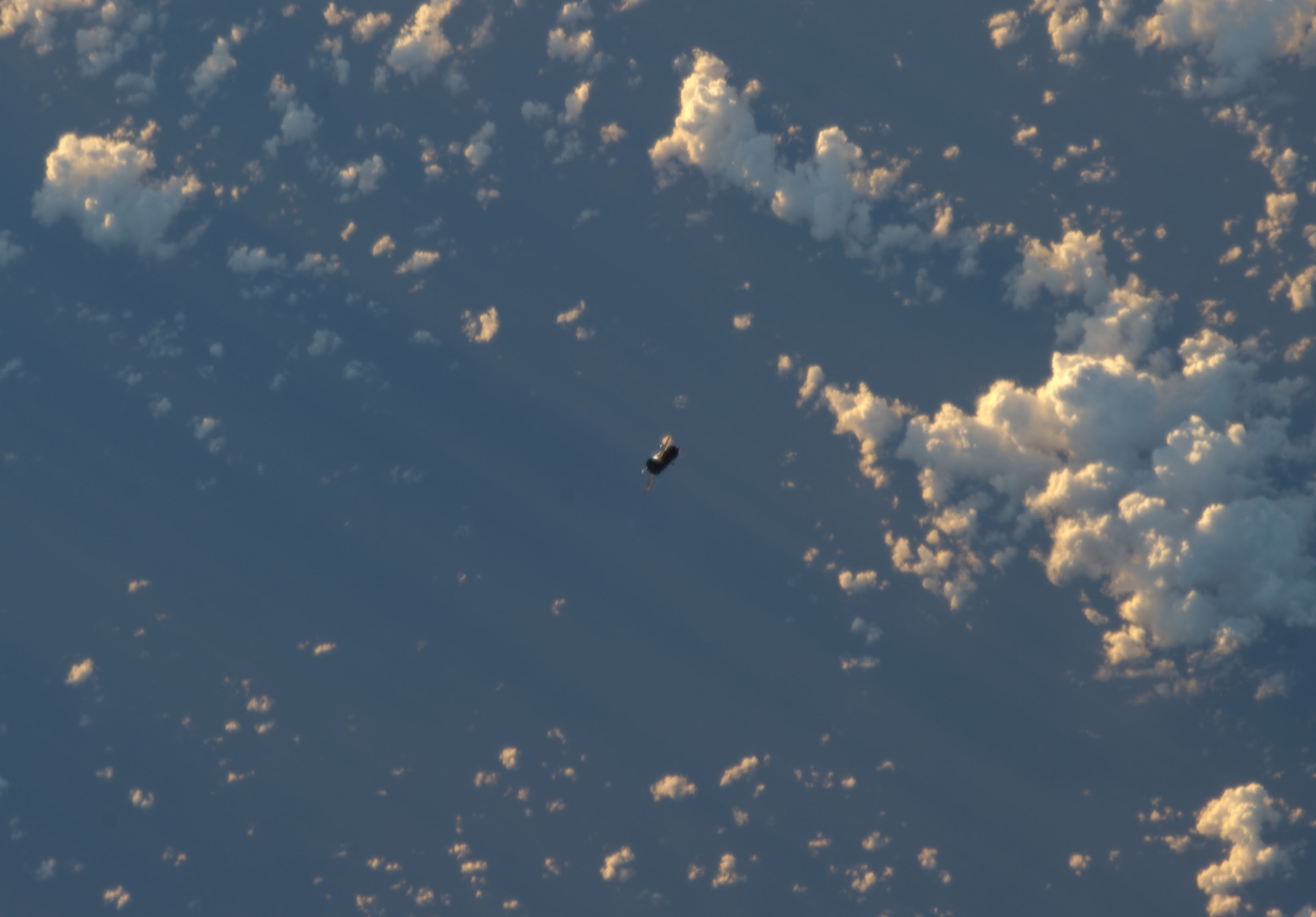 Backdropped by a blue and white part of Earth, the unpiloted ISS Progress 39 supply vehicle appears to be very small as it departs from the International Space Station at 8:12 a.m. (EST) on Feb. 20, 2011. At 11:12 a.m., the deorbit burn braked the trash-loaded cargo ship into its re-entry trajectory over the Pacific Ocean, where it was burned up in Earth's atmosphere.